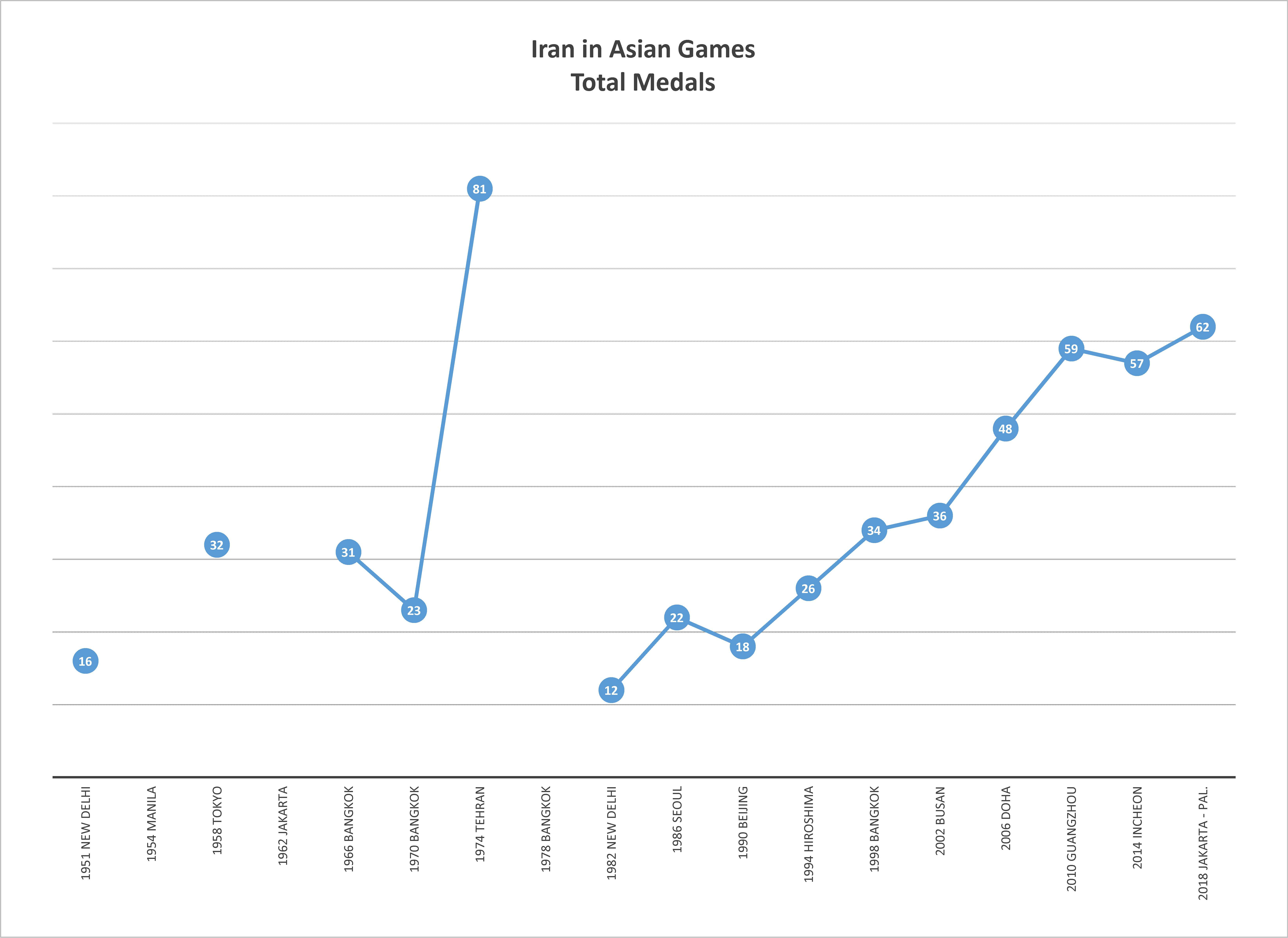 The chart is presenting the Iranian total medals count in each Asian games events